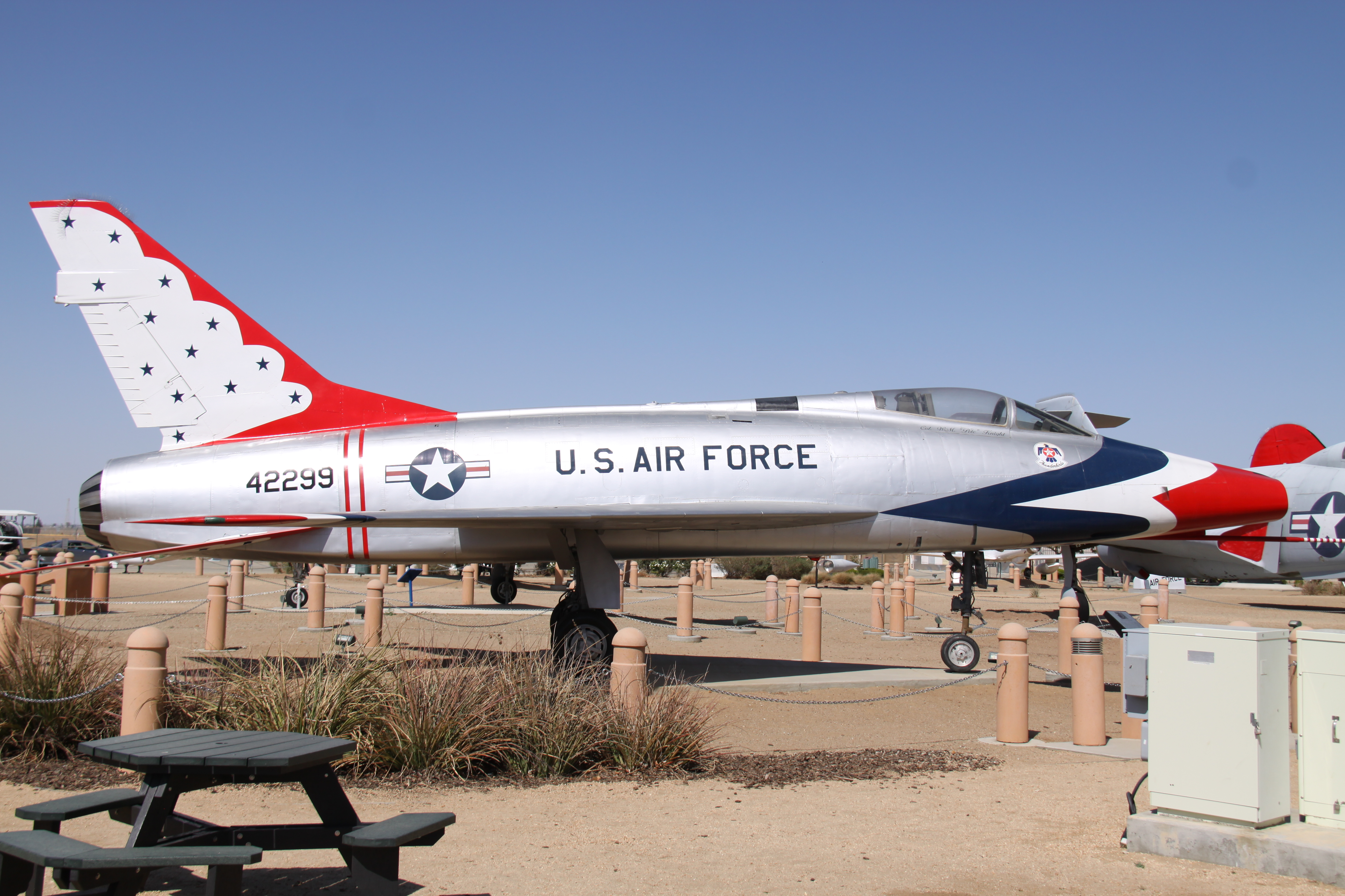 At Palmdale